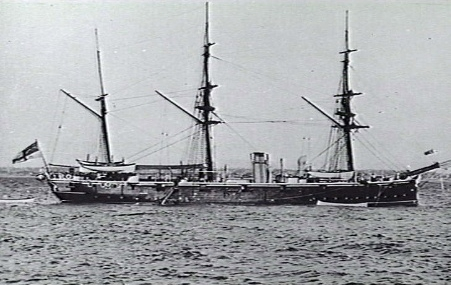 AWM caption : "MELBOURNE, VIC. STARBOARD BROADSIDE VIEW OF THE THIRD CLASS CRUISER, FORMERLY SCREW CORVETTE, HMS PYLADES AT ANCHOR IN HOBSONS BAY. PYLADES WAS THE ONLY ONE OF HER CLASS SERVING ON THE AUSTRALIA STATION TO HAVE A BOW DECORATION AND FIGUREHEAD. NOTE THE 5 INCH CHASE GUN PROTRUDING FROM THE STERN GUNPORT."